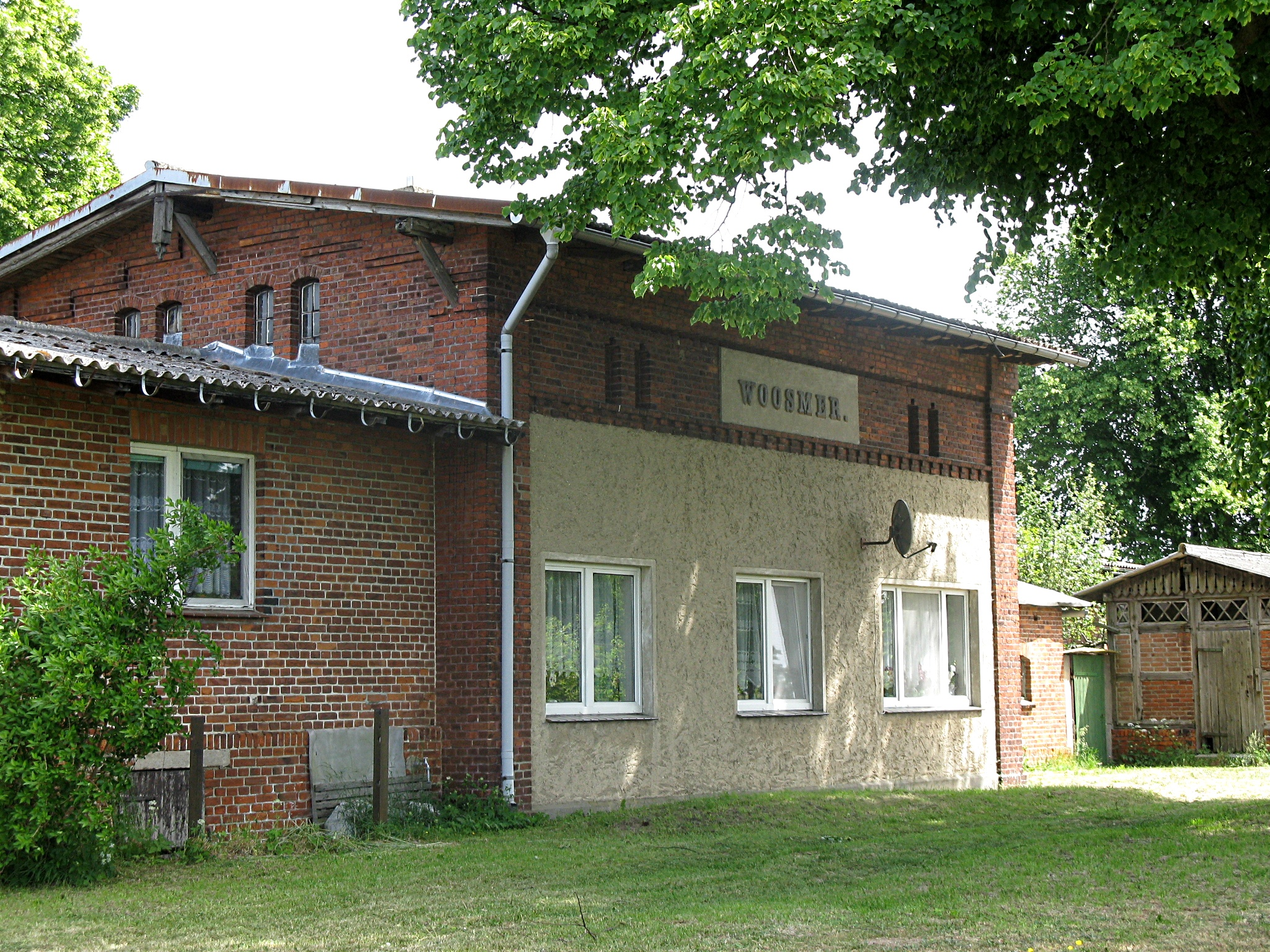 Former train station in Woosmer (Vielank), Mecklenburg-Vorpommern, Germany